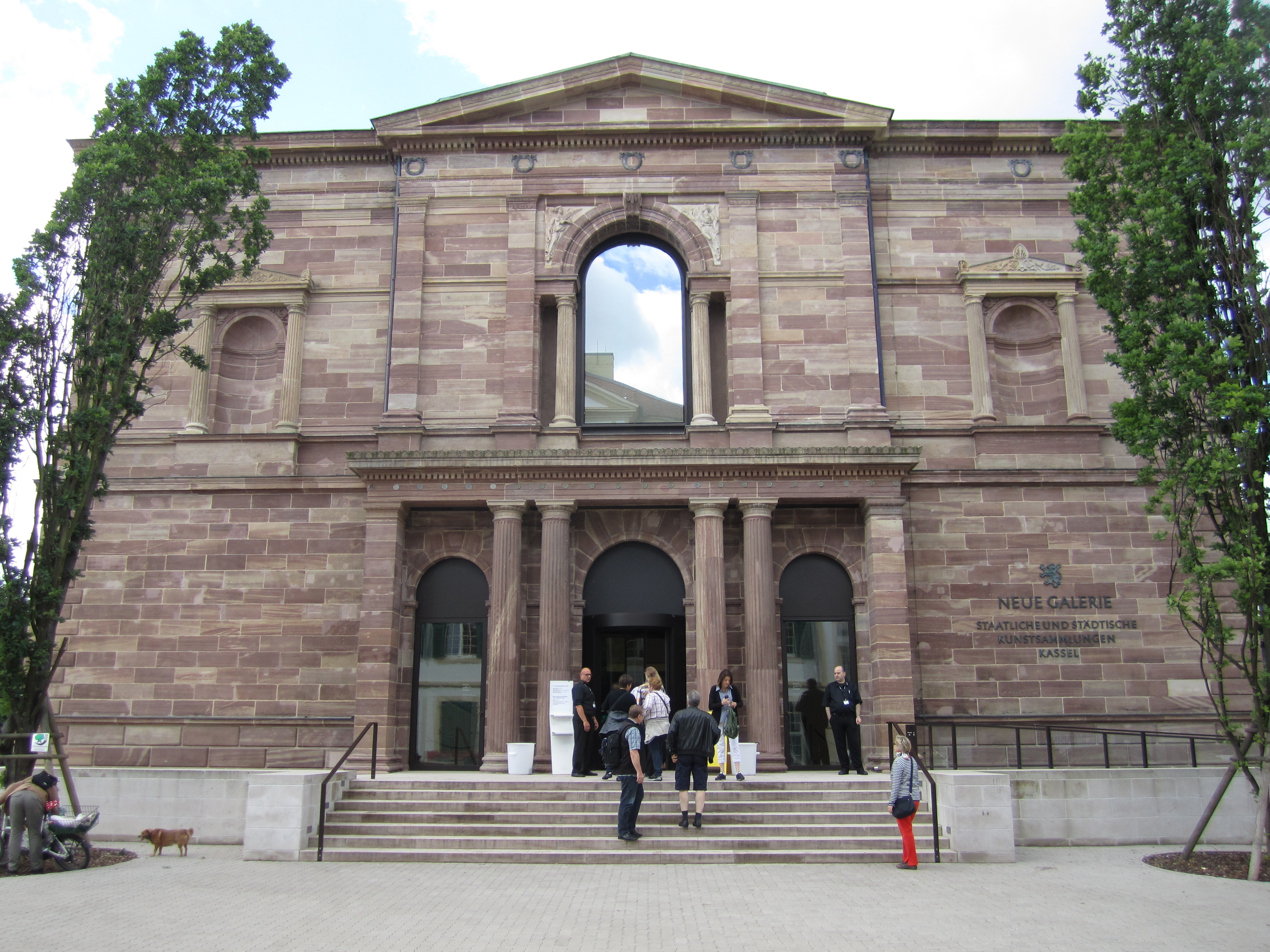 Entrance of Neue Galerie art museum in Kassel, Germany.